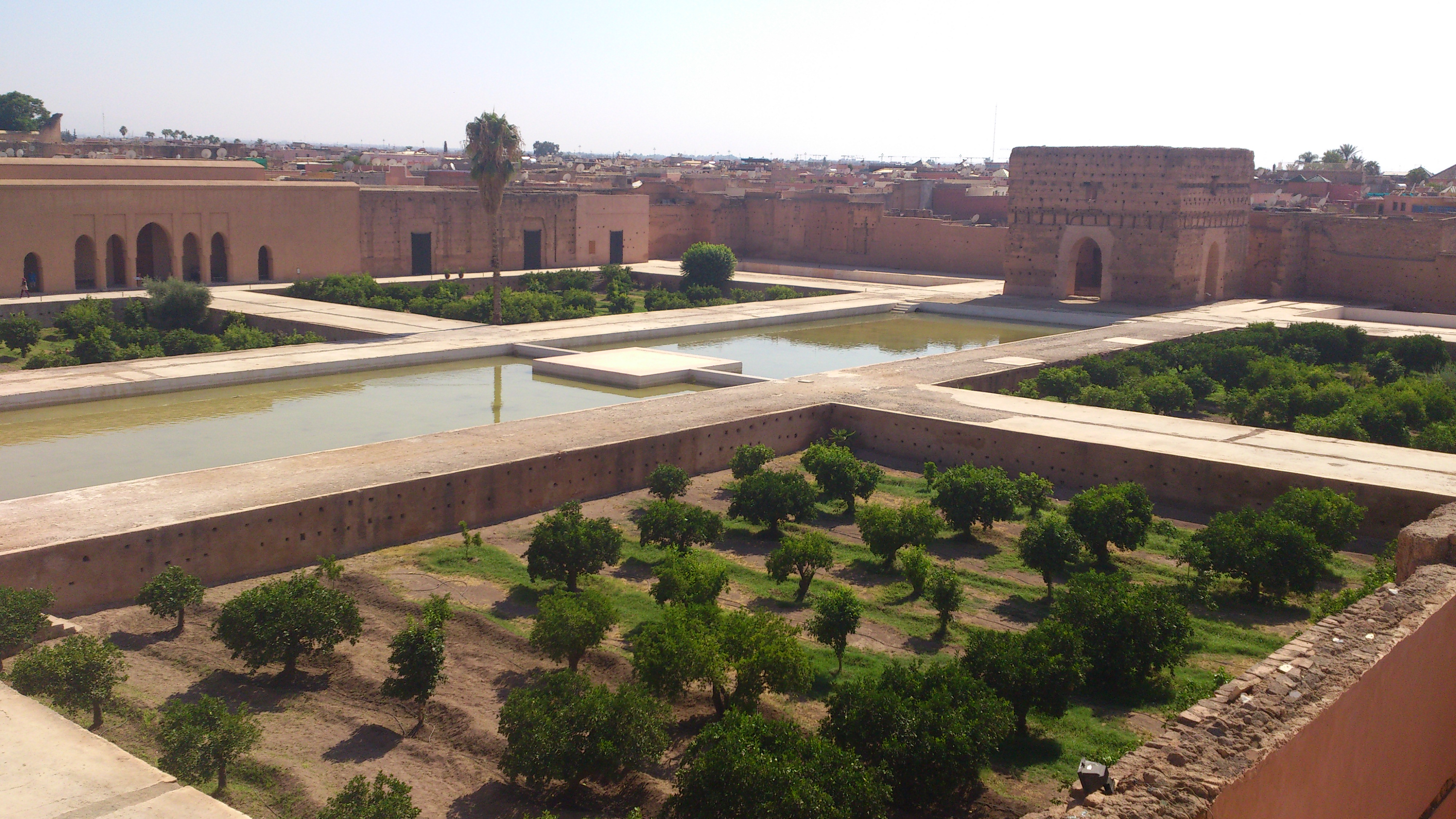 The remaining of El Badi Palace